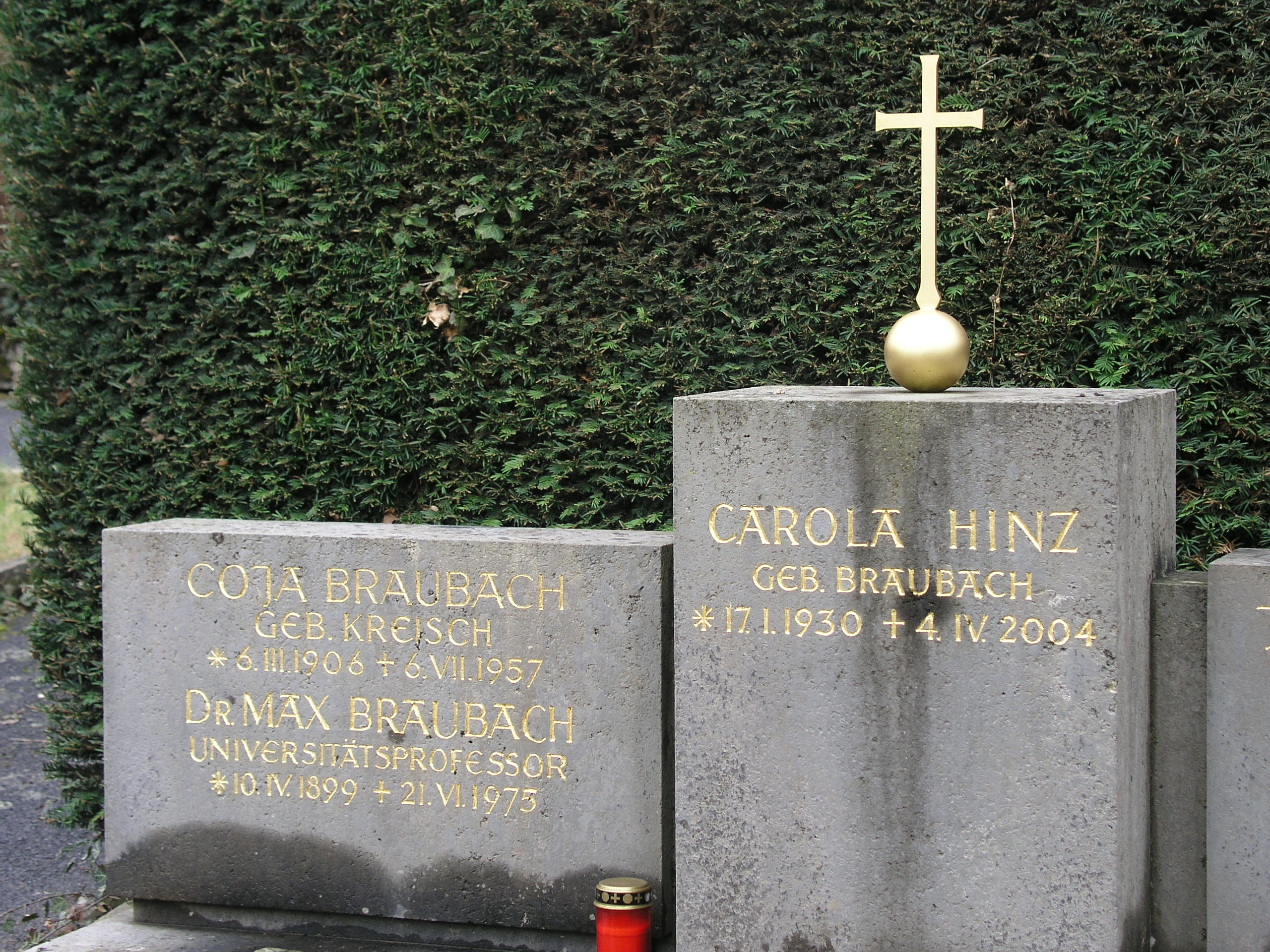 Max Braubach